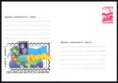 Postal stationery (cover) of Ukraine devoted to the 50th anniversary of the Ukrainian Philatelic and Numismatic Society, 2001.